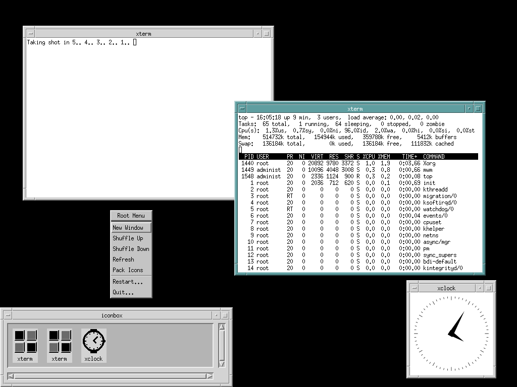 MWM, the Motif Window Manager, running with default settings on Debian GNU/Linux.